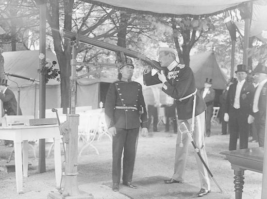 Christian X photographed during a shooting at the Royal Copenhagen Shooting Society's shooting range at Vesterbro in Copenhagen, Denmark. The site is now the public park Skydebanehaven